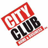 Logo for City Club